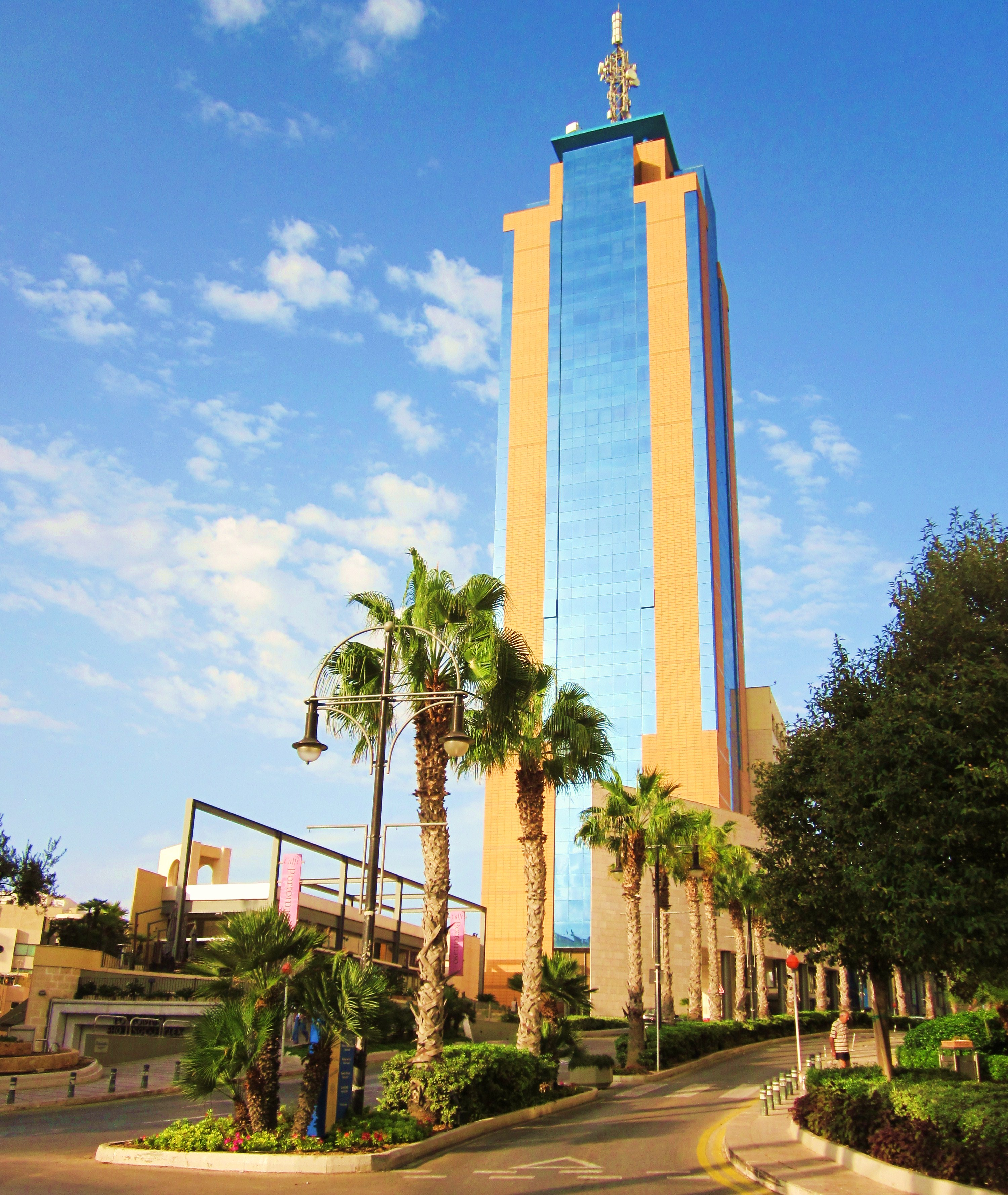 Currently the only skyscraper in Malta.